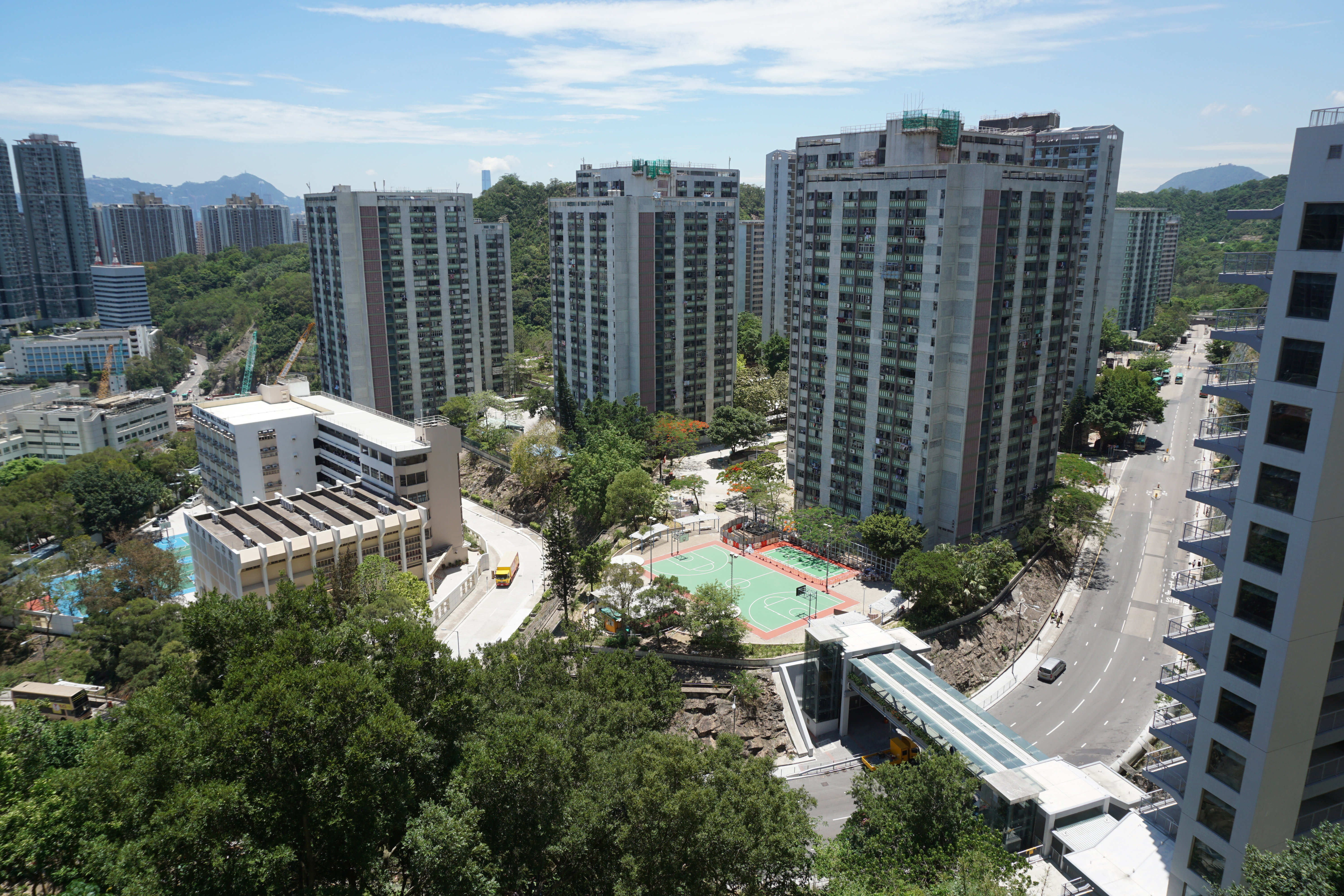 Shun Tin Estate in Sau Mau Ping, Hong Kong.